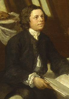 Captain Lord George Graham, 1715-47, in his Cabin. Probably shows the subject in the cabin of his new command, the 66-gun HMS Lark. Graham is seen seated, in full length view, to the right of the table, smoking a long handled pipe. His clerk and chaplain sing, to music played by a black servant boy on a drum and fife. A steward brings a fowl to the table, but while looking out at the viewer with a smile, tips gravy down the back of the chaplain's neck. Two dogs are visible. One, Graham's dog, joins in the singing. Hogarth's own pug dog, Trump, sits up on a chair, wearing Hogarth's wig and holding a scroll, and reads from a sheet of music in front of him propped on a wineglass. The picture is inscribed in the top left corner 'Ld Geo. Graham, Son to 1st D. of Montrose, by Hogarth'. The sober-suited dining companion holding out a blank journal or log-book is thought to be the Scottish poet, David Mallet. See "source" website...